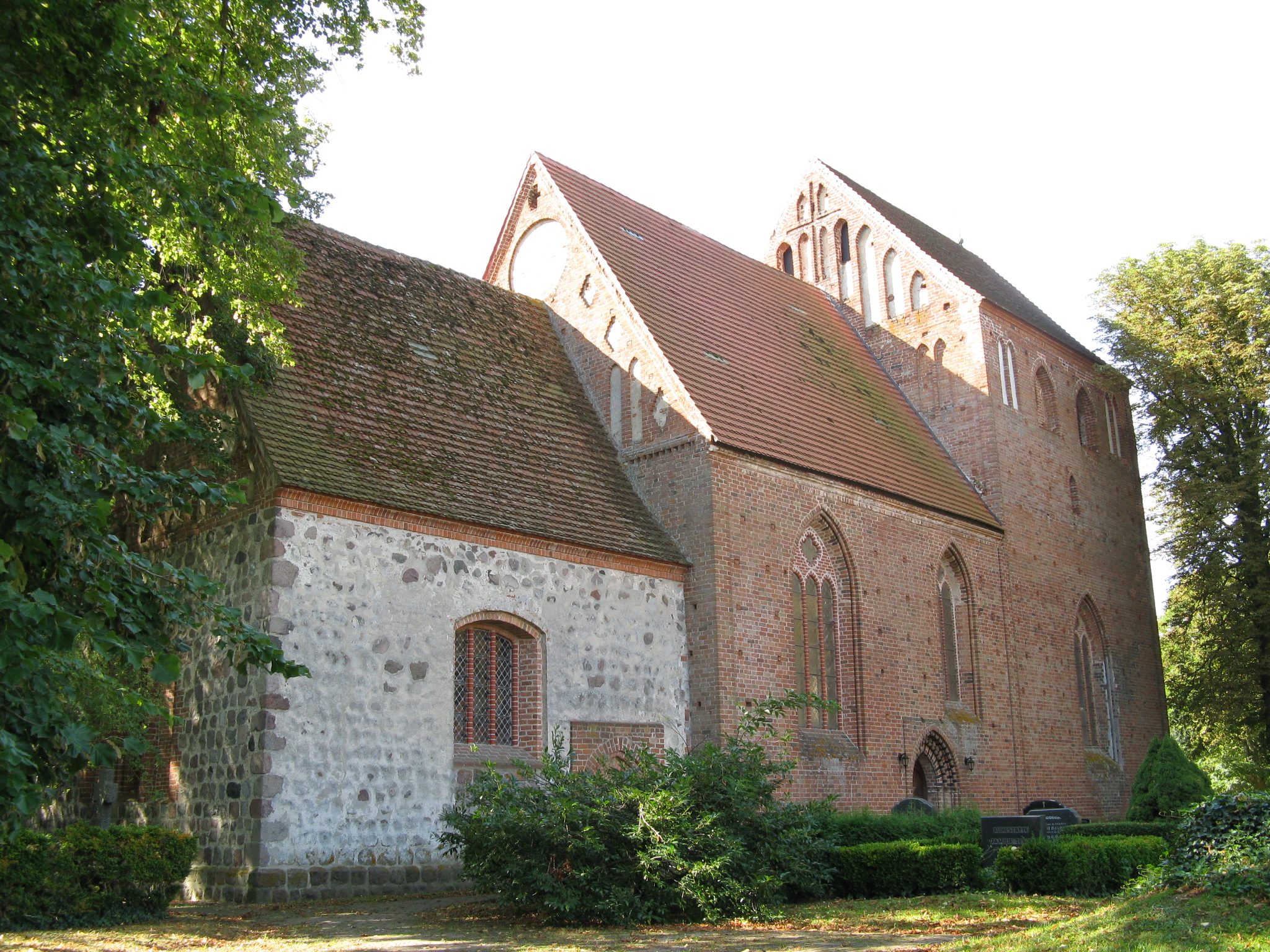 Church in Wattmannshagen, disctrict Güstrow, Mecklenburg-Vorpommern, Germany